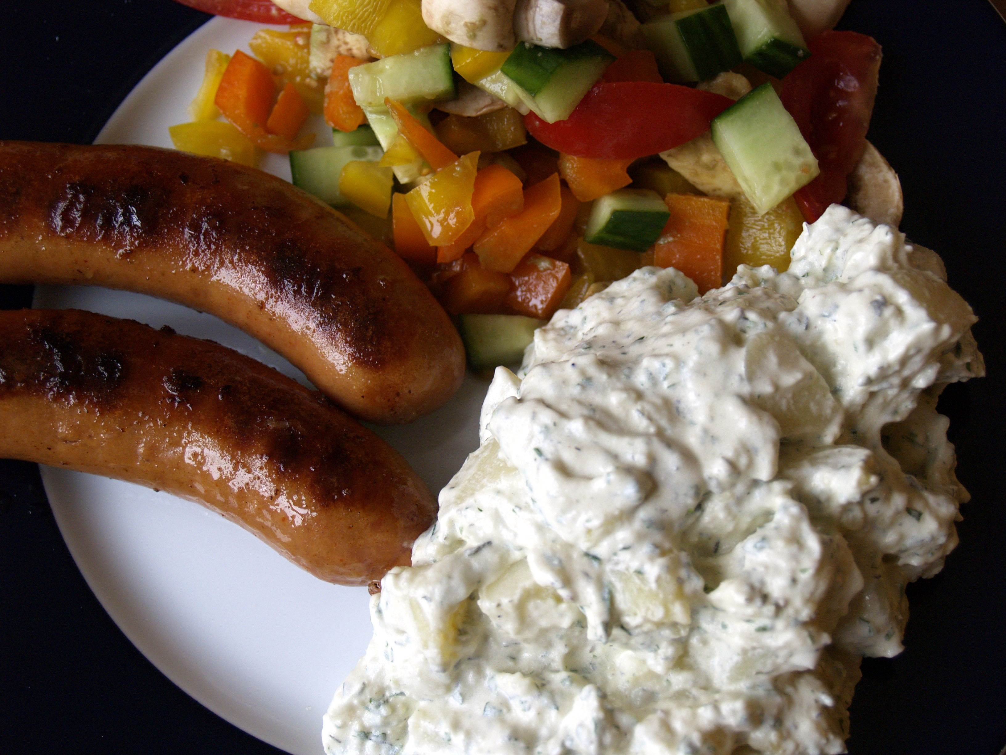 Sausages with salad and potato salad